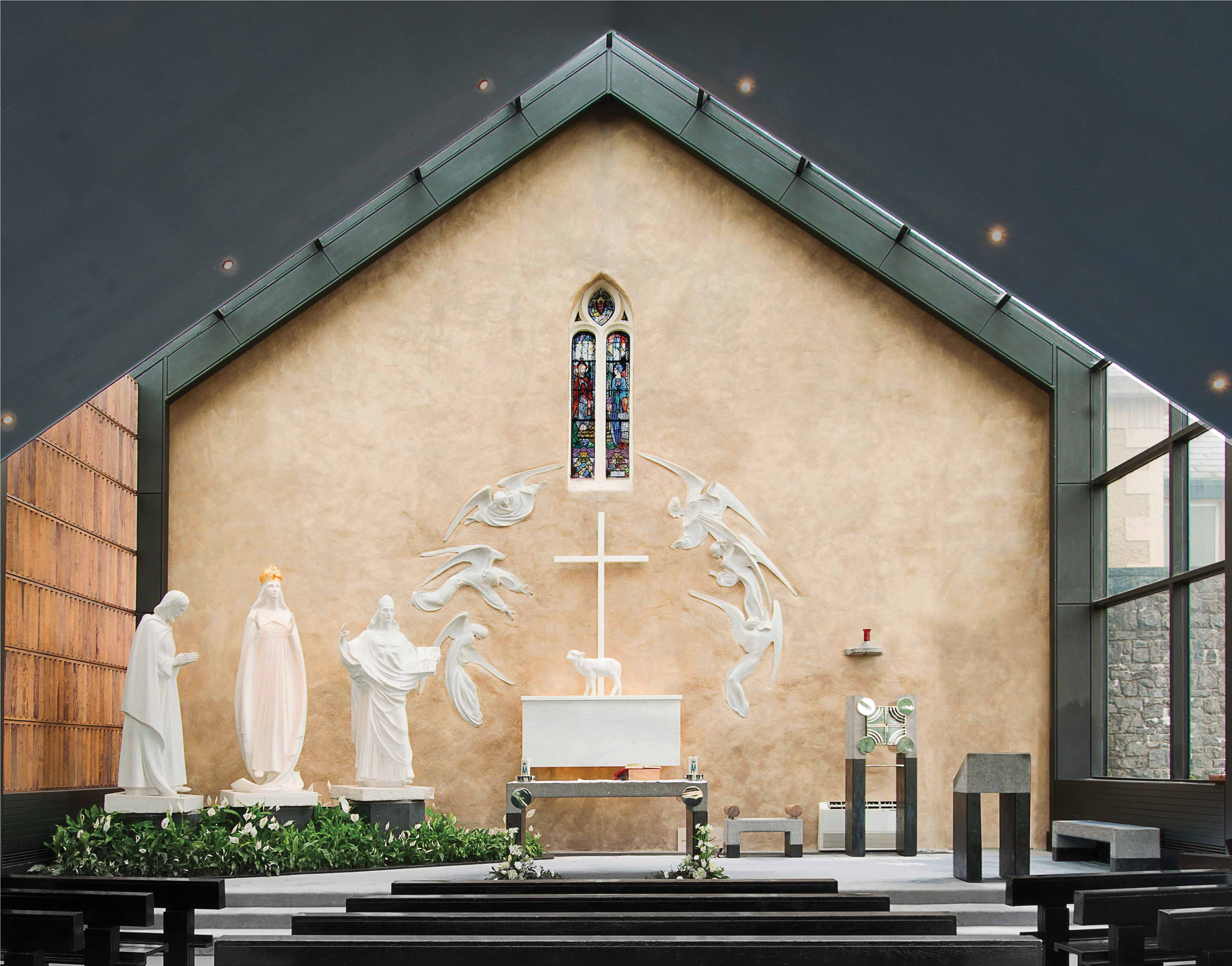 The Apparition Chapel at Knock Shrine, Co Mayo, Ireland